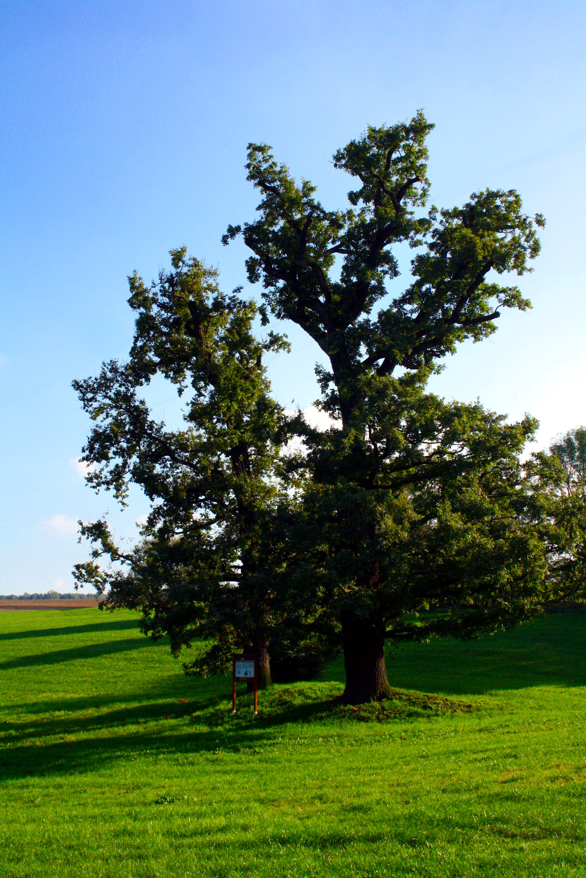 Ancient hill fort called Tempel in Langenwetzendorf-Hain near Greiz/Thuringia